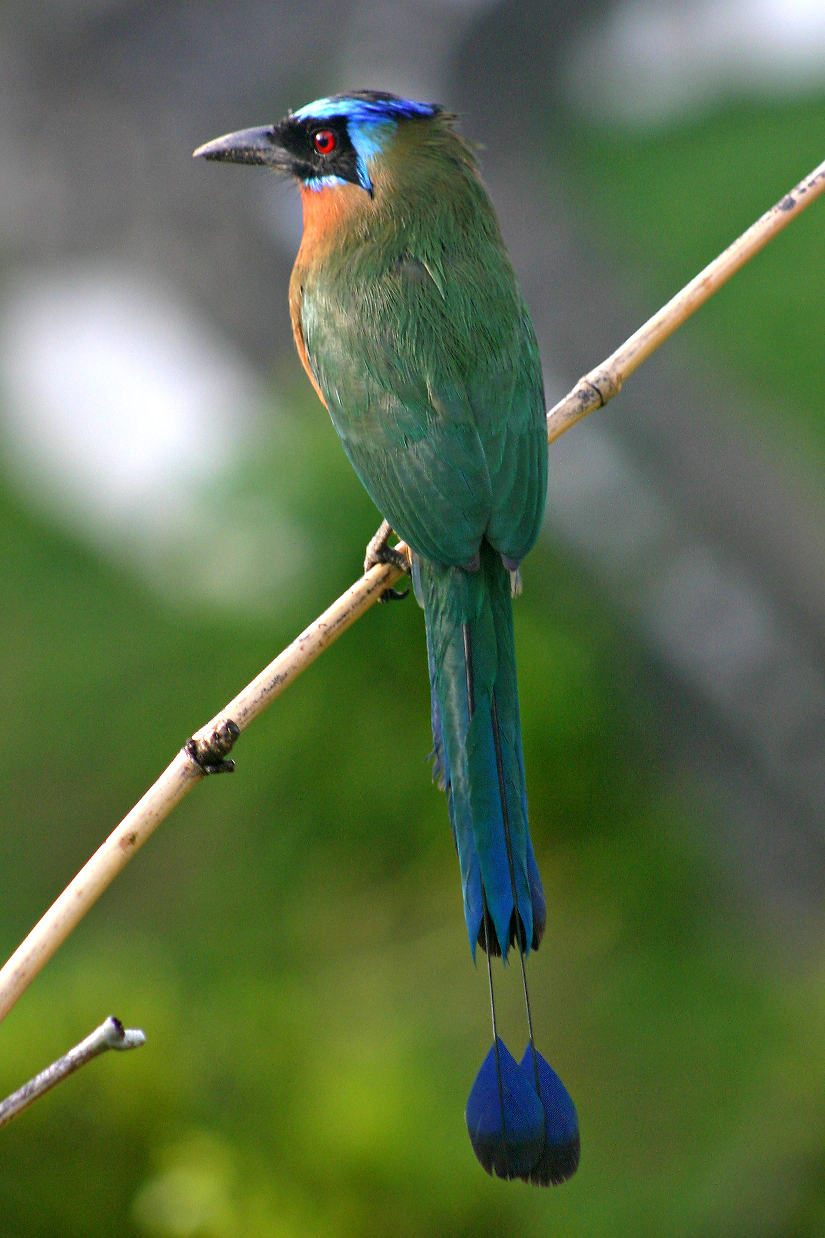 Blue-crowned Motmot taken by myself at Arnos Vale, Tobago on 2004-12-01. Edited by Fir0002